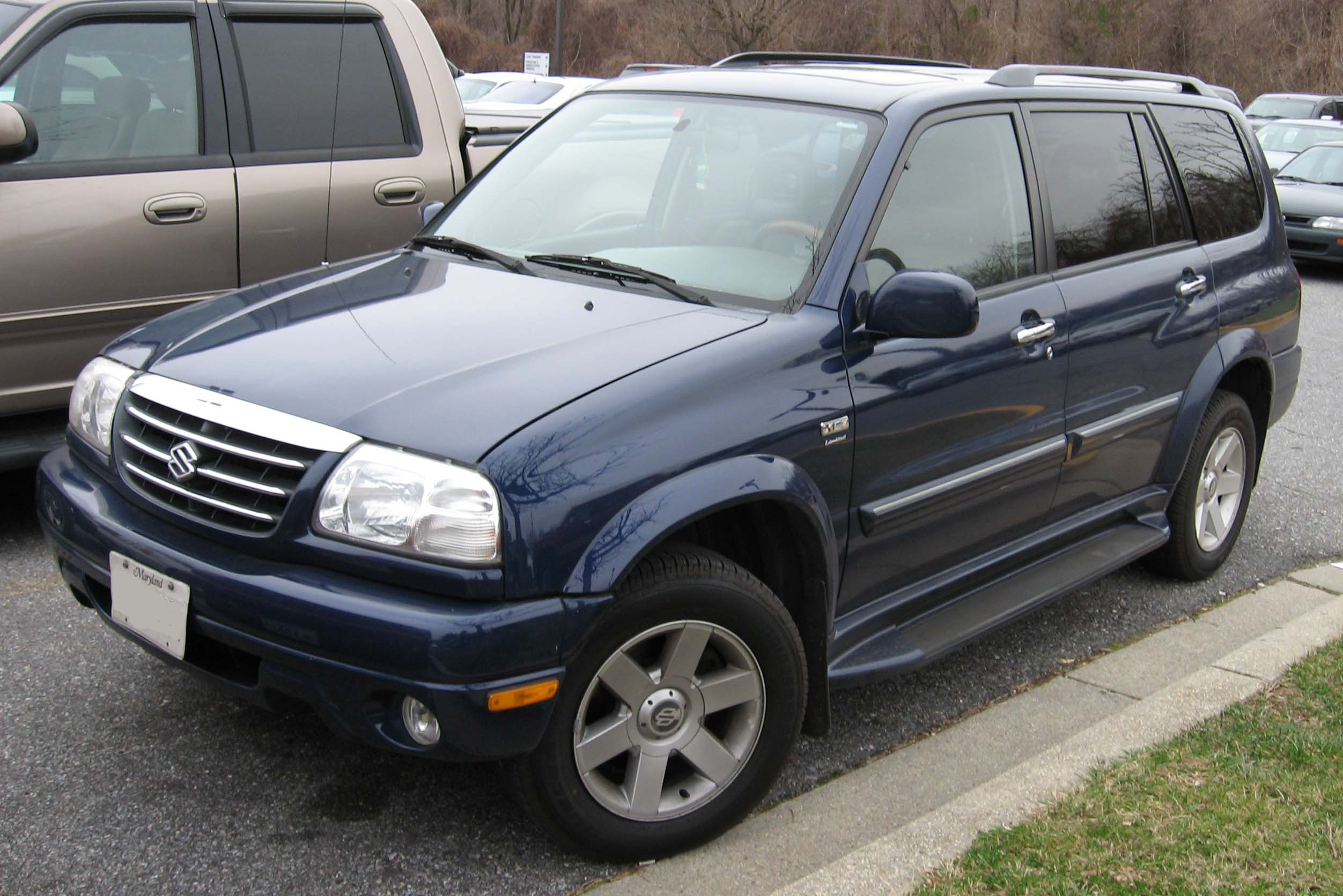 2001-2003 Suzuki XL-7 photographed in USA.